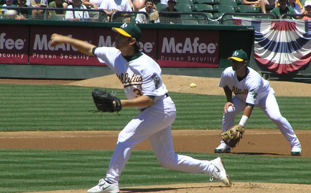 Photo by Justin Lafferty 00:08, 7 December 2006 . . Jlaff . . 640×413 (189 KB)